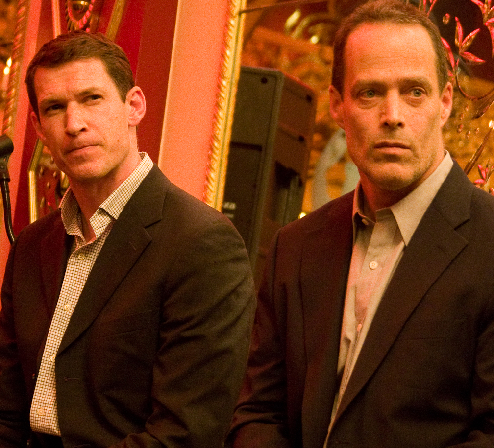 Tim Hetherington and Sebastian Junger at a Hudson Union Society event in February 2011.